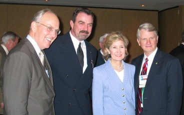 Senator Kay Bailey Hutchison attends the NRA Annual Convention in Houston. Pictured with Senator Hutchison: (l to r) Senator Larry Craig, actor Tom Selleck, and Senator Zell Miller. -- 4/16/05